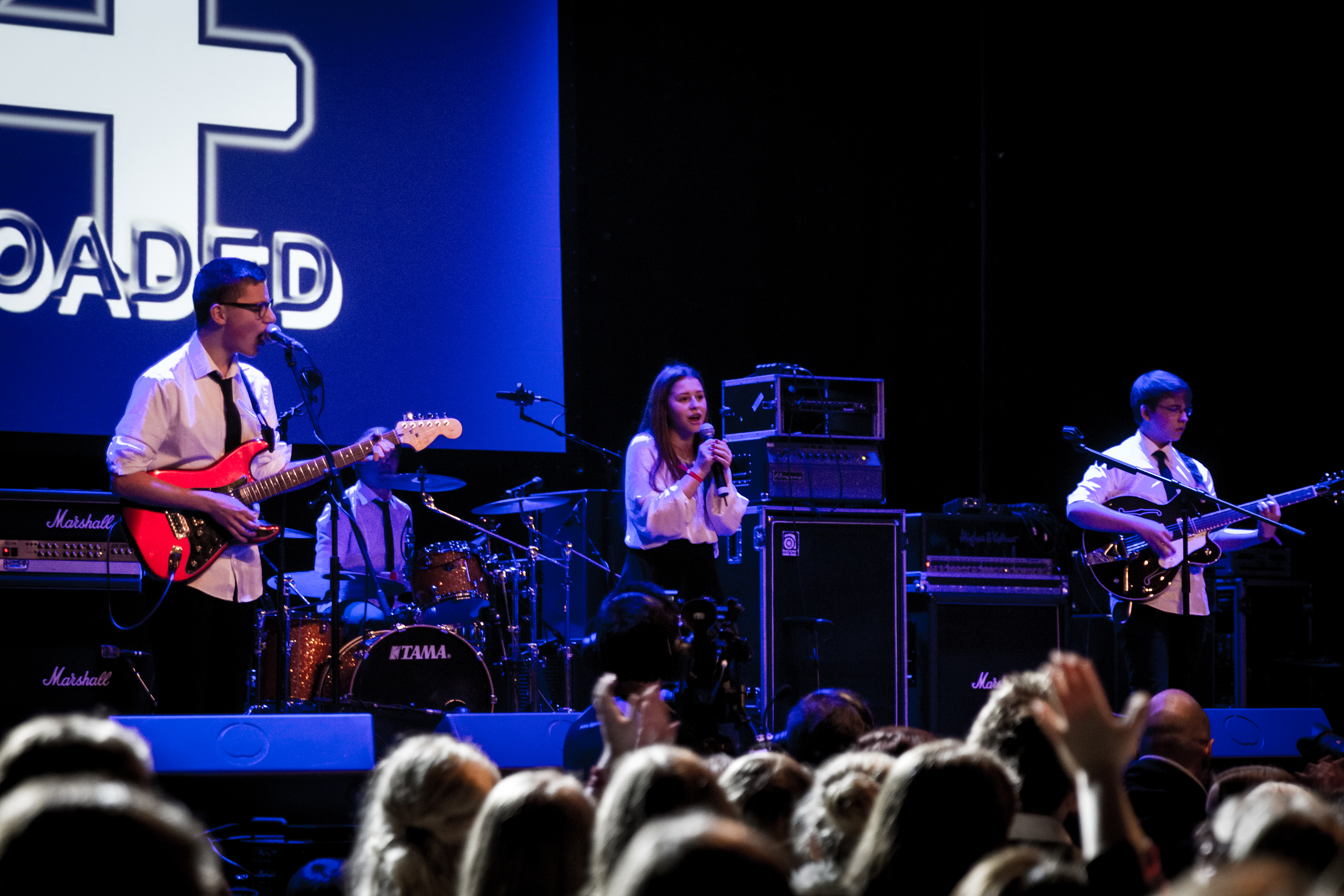 Fab 4 Reloaded - Schüler Rockfestival 2015